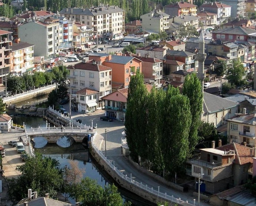 General view of the town of Bozkır in Konya Province, Turkey